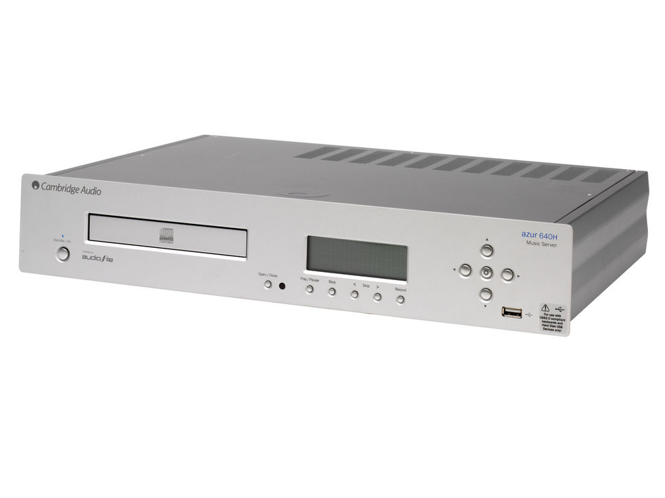 Cambridge Audio Azur 640H